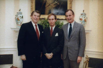 Reagan,Lukens,Nichols,Klings,DuVall,Richards,Shelby,Totten,Masson,Carman,Kinder,Kitchen,Timmons,Roberts,Devine,Bish,Tucker,McPherson,Donatelli,Hertado,Carter,Whetstone, Moore,White,Biebel,Stone,Manafort,Harmon (Not in all photos) posing for photos